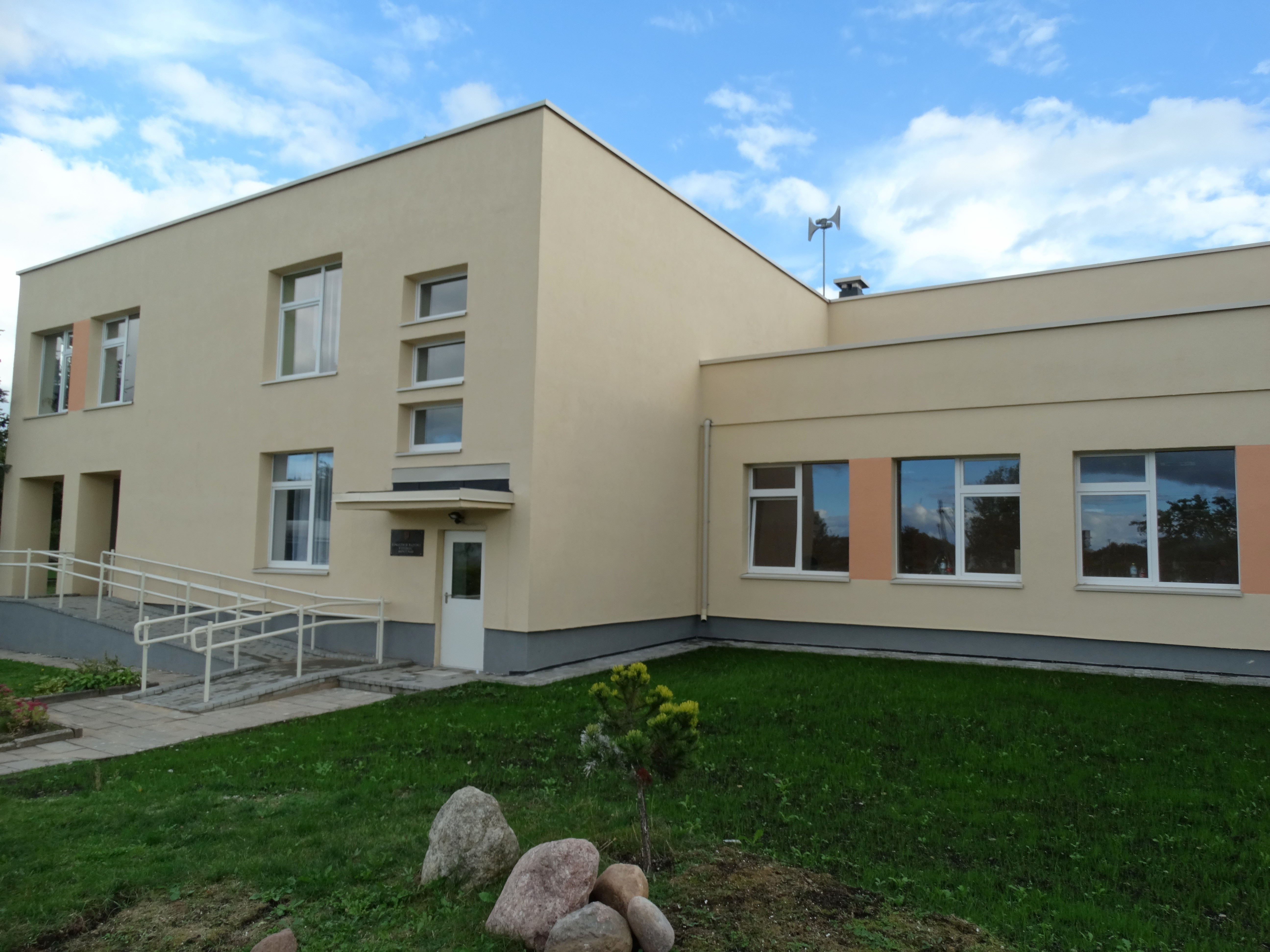 Eldership, Vidiškės, Ignalina district, Lithuania